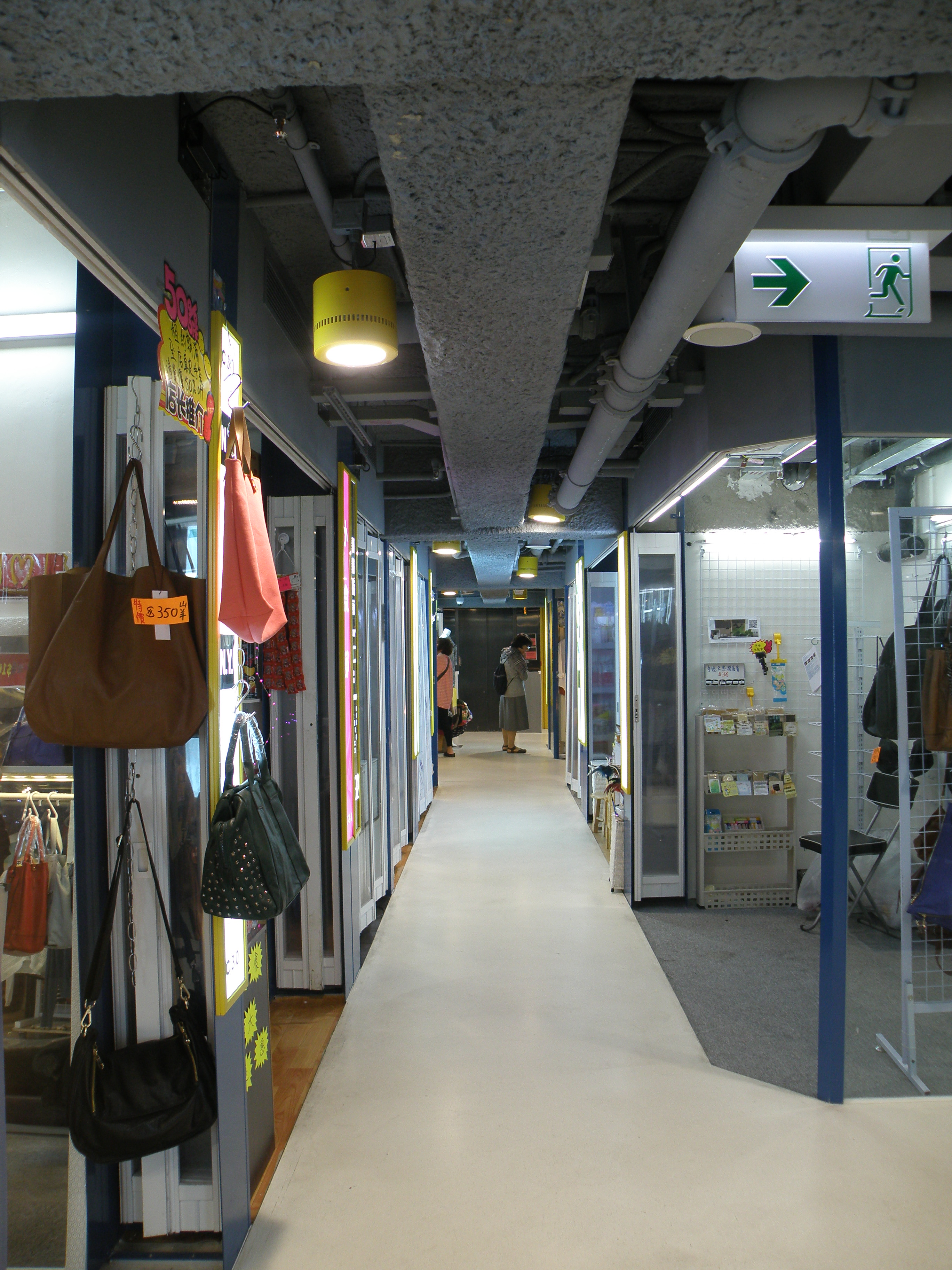 The Cube in Tsuen Wan, Hong Kong.